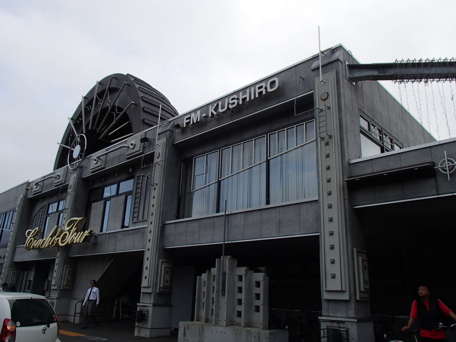 ＦＭ KUSHIRO Coach & Four